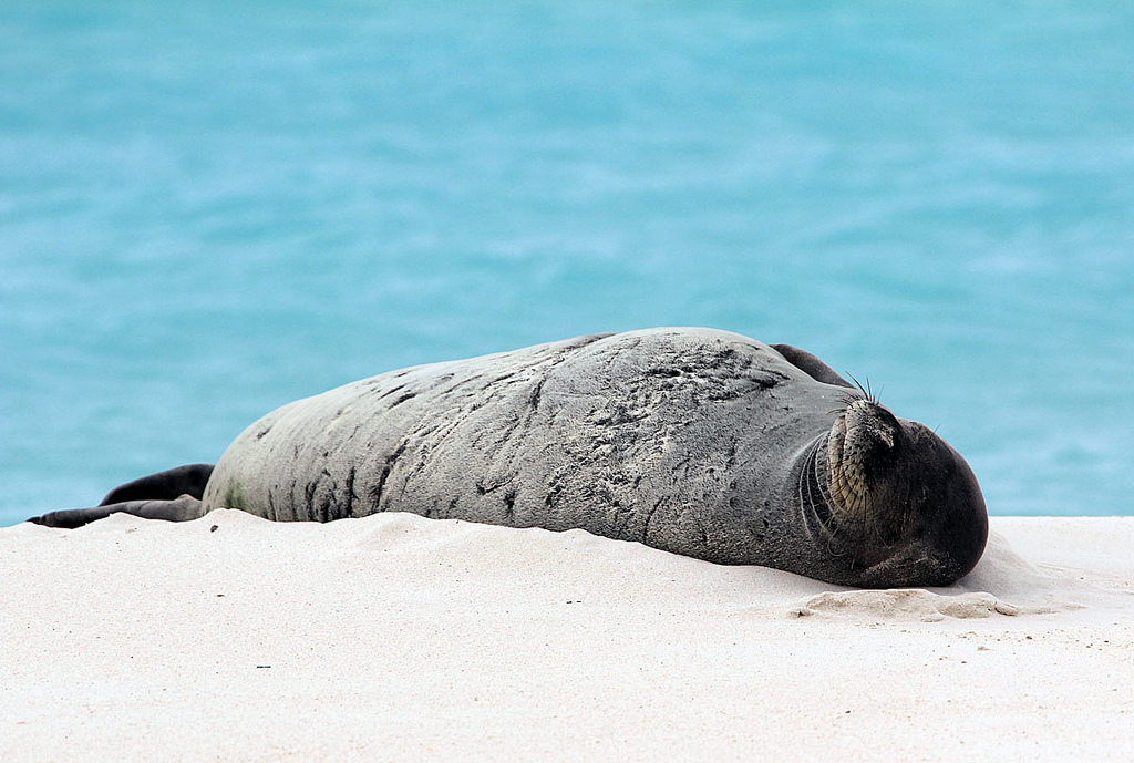 Midway Atoll National Wildlife Refuge, Papahānaumokuākea Marine National Monument